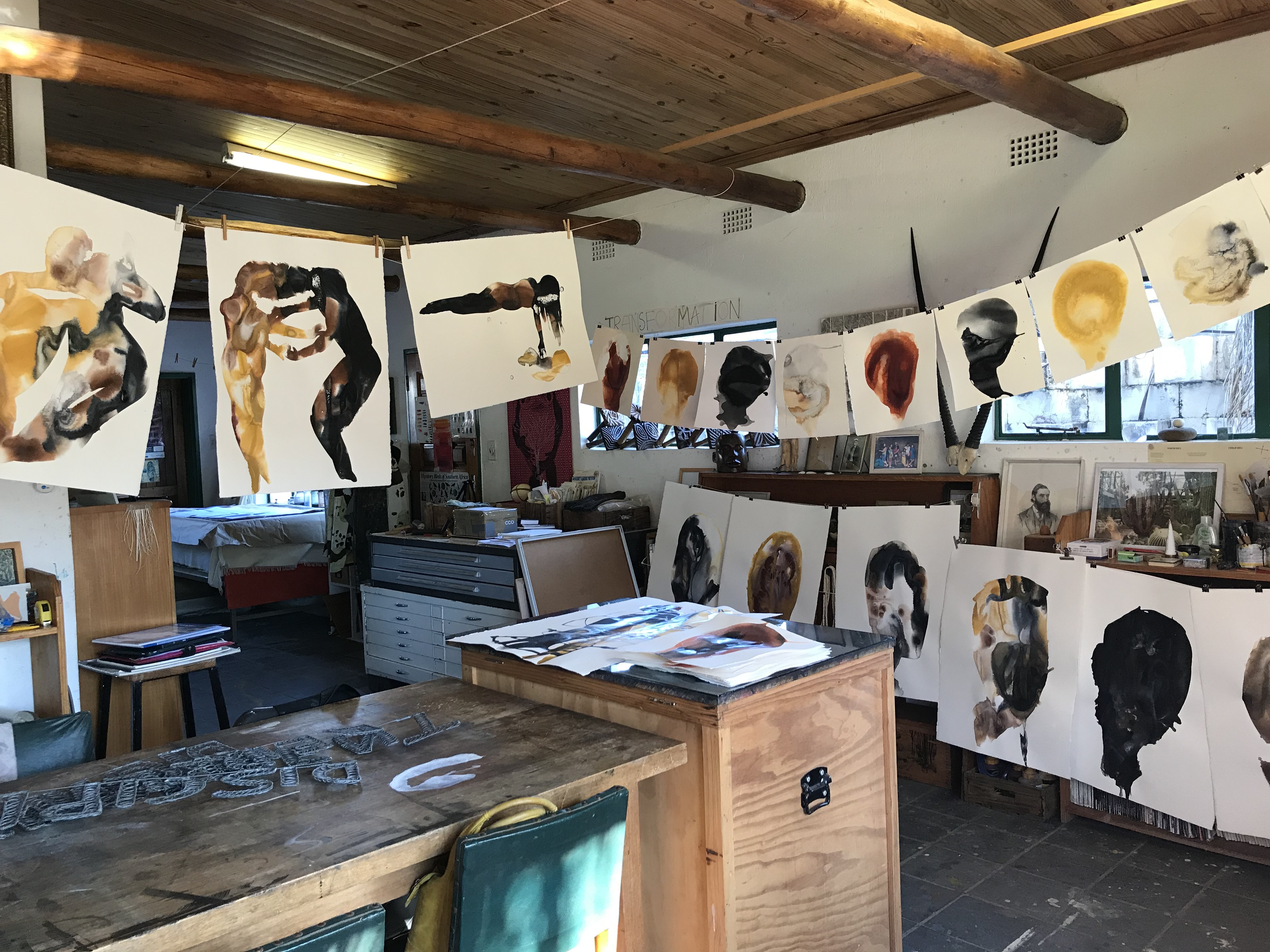 British-Guyanese artist Ann Gollifer's studio located in Gaborone, Botswana.